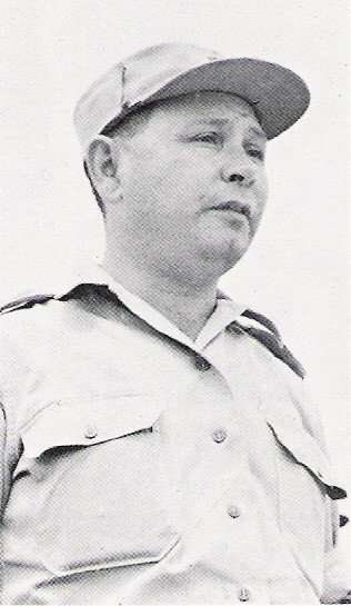 Moshe Carmel